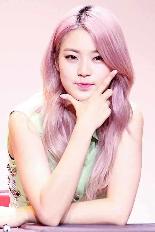 D.ana at a fansigning event in Incheon, 23 August 2015